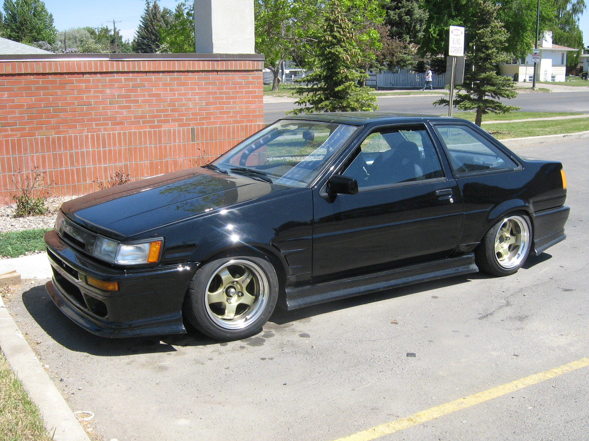 Toyota Corolla GTS with body kit, Japanese style headlights and custom wheels.